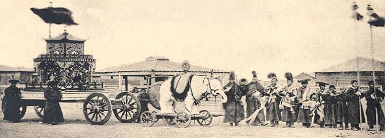 This is a postcard image of a mobile khurul (temple). On it rests the burkhan (image of Mahayana Buddhist deity). The mobile temple serves and accompanies a pastoral nomadic tribe, even as the tribe migrates. This photo was taken in 1903 somewhere in Siberia during the Tsarist period.